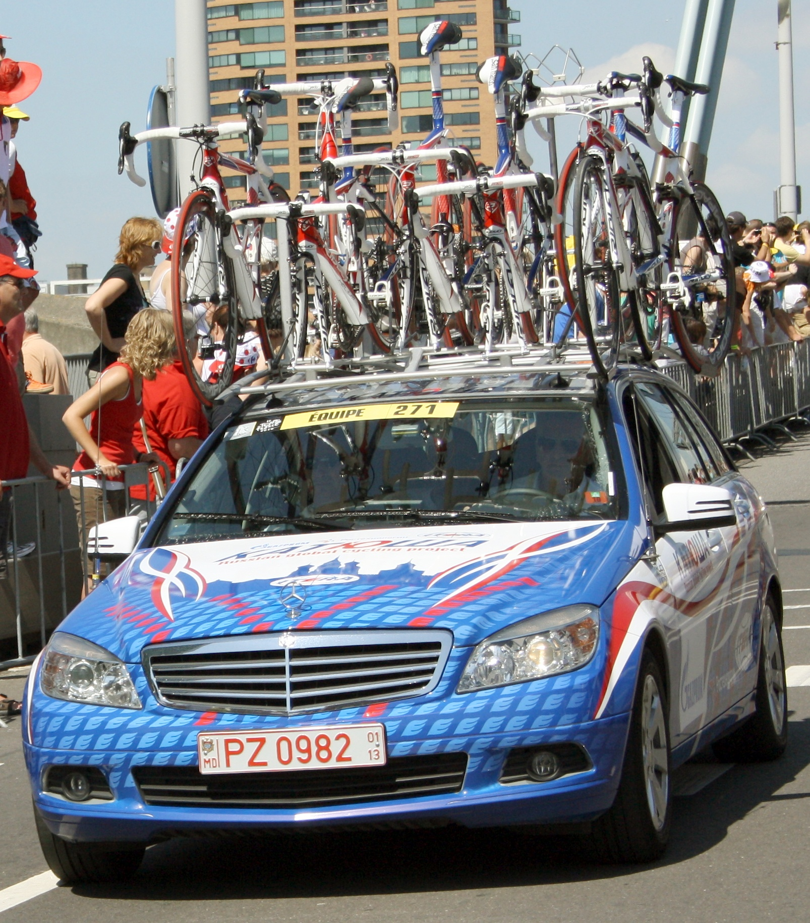 Katusha team car at the start of the first stage of the 2010 Tour de France in Rotterdam